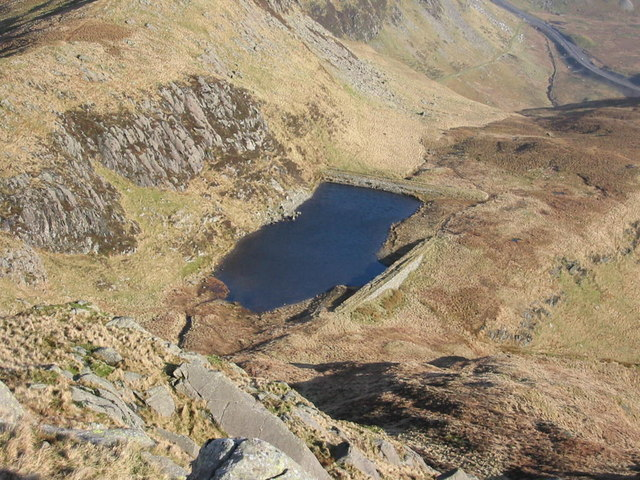 Llyn Iwerddon The dams testify to the fact that this was once a reservoir supplying water power to a nearby quarry. Crimea pass in the background.